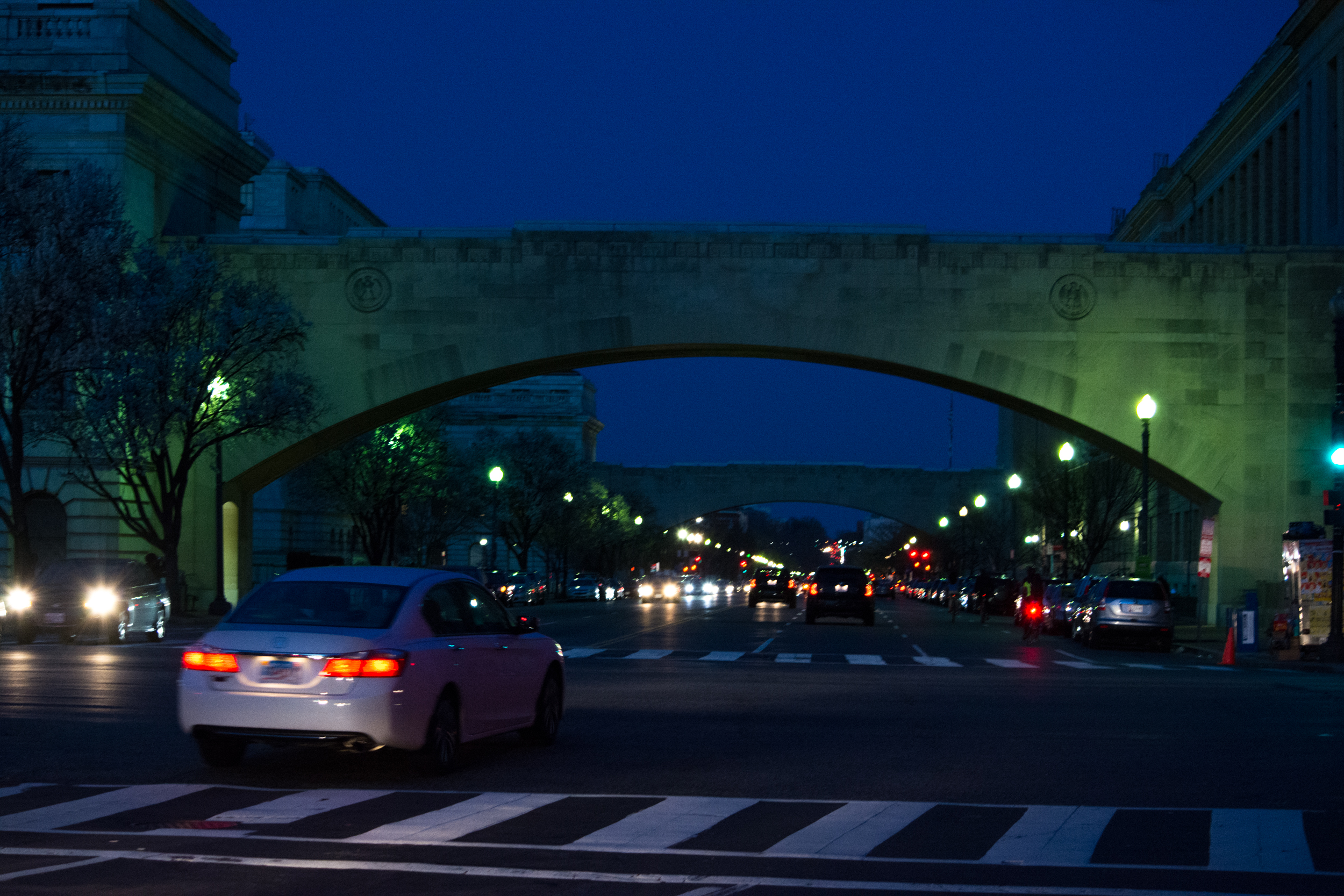 Standing on 15th Street NW, looking east along Independence Avenue SW in Washington, D.C., in the United States. The pedestrian skywalks link the United States Department of Agriculture's main headquarters with its south buildings.